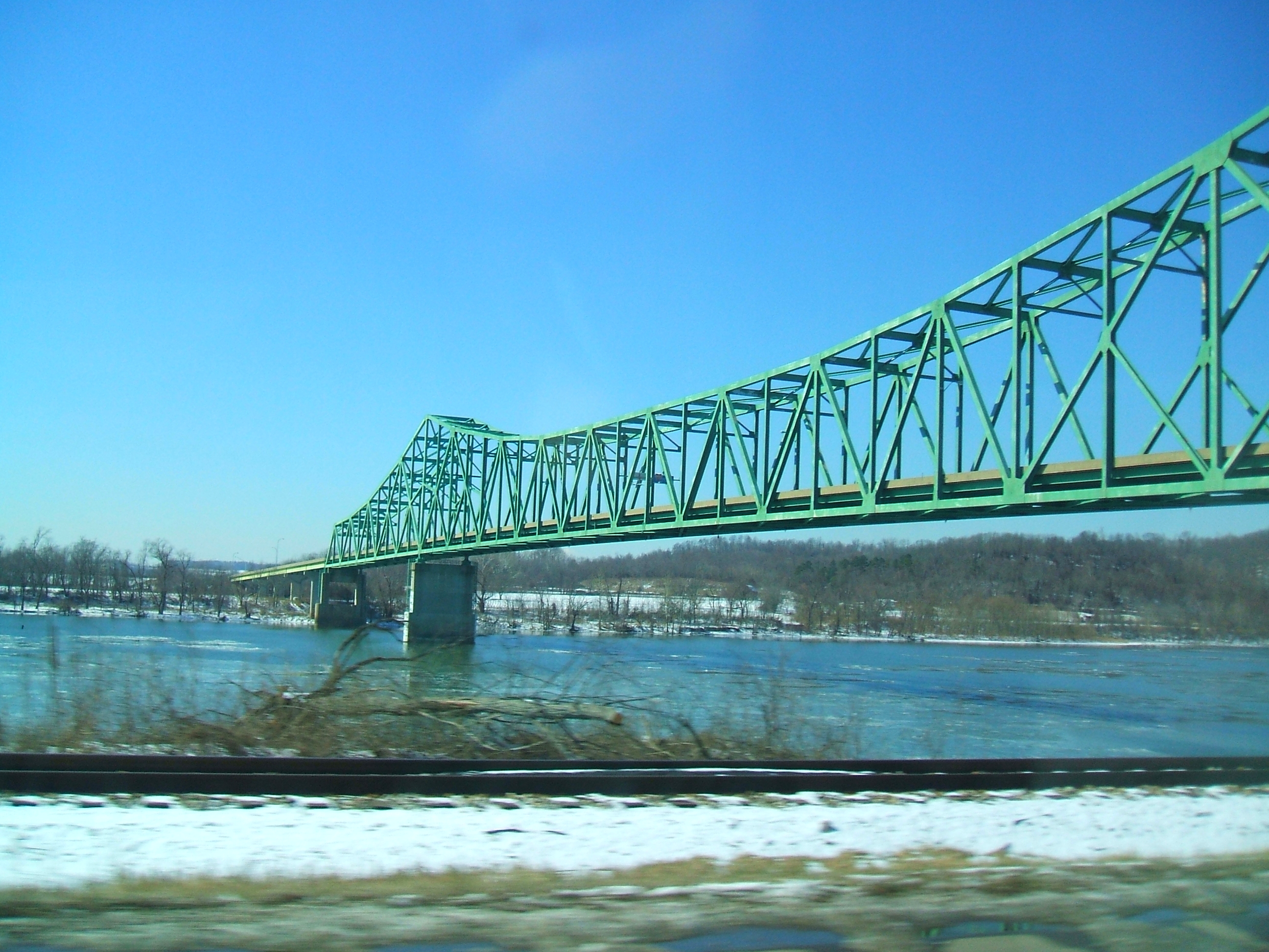 The Ravenswood Bridge carrying US 33 over the Ohio River at Ravenswood, West Virginia. Self made photo.